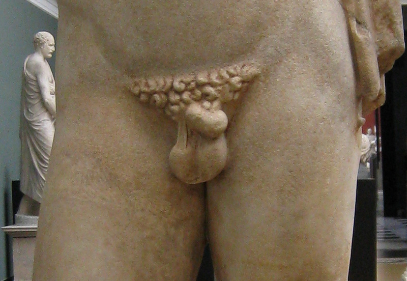 Detail of marble statue of Anacreon from Monte Calvo in Italy. 2nd century AD. From the collection of the Ny Carlsberg Glyptotek. Item number IN 491. The poet is shown with his genitals infibulated (an early form of chastity piercing), as a symbol of modesty and abstinence.